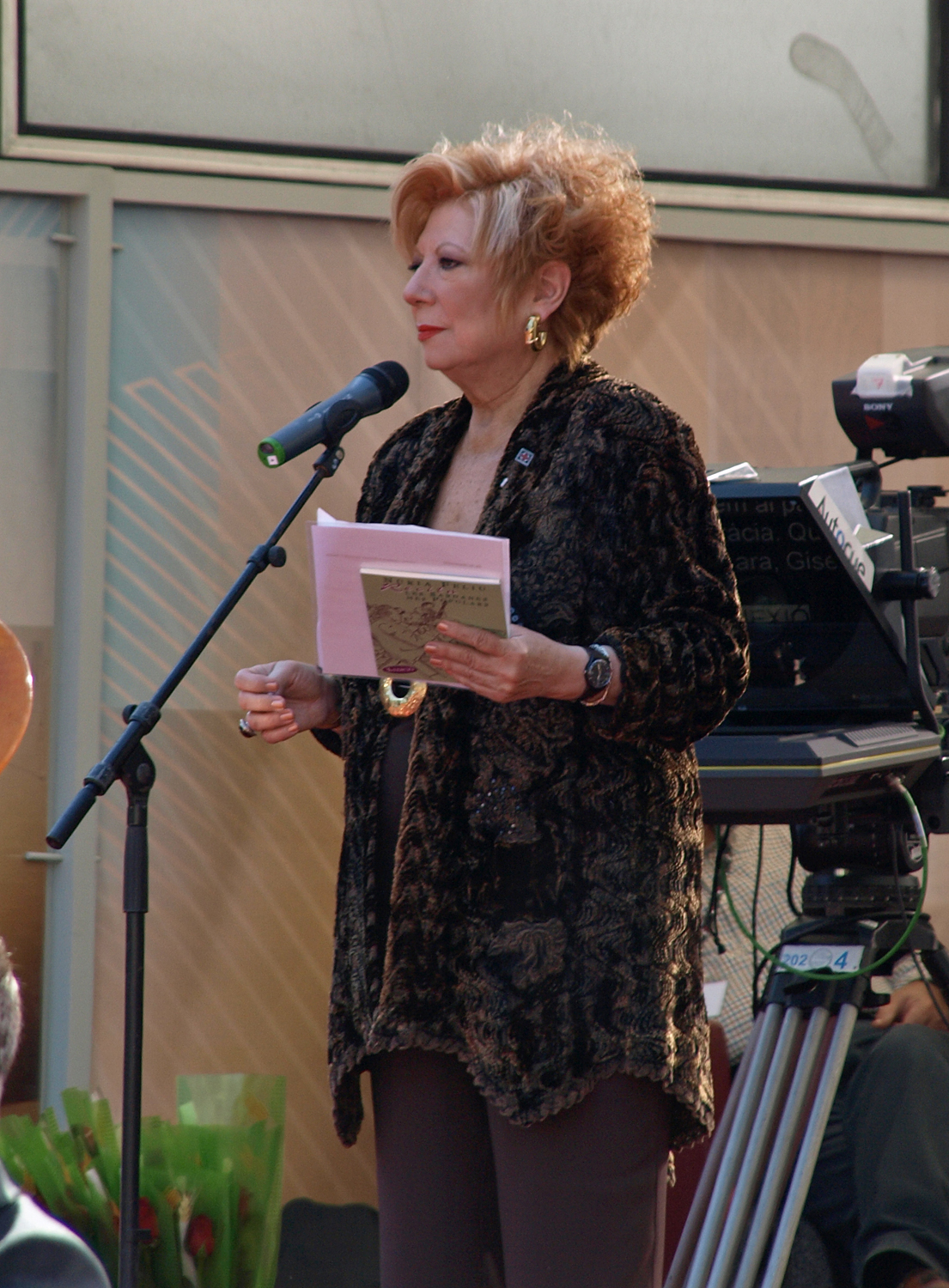 Catalan singer and actress: Núria Feliu in Barcelona